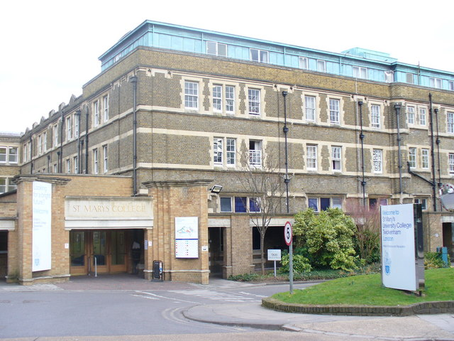 St Mary's University College The college was originally a Catholic teaching college. It is located next door to Horace Walpole's Strawberry Hill Victorian Gothic extravaganza.